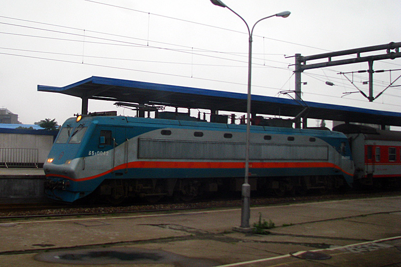 A train hauling by a China Railways SS9 electric locomotive in Jiaxing Railway Station, Zhejiang Province.